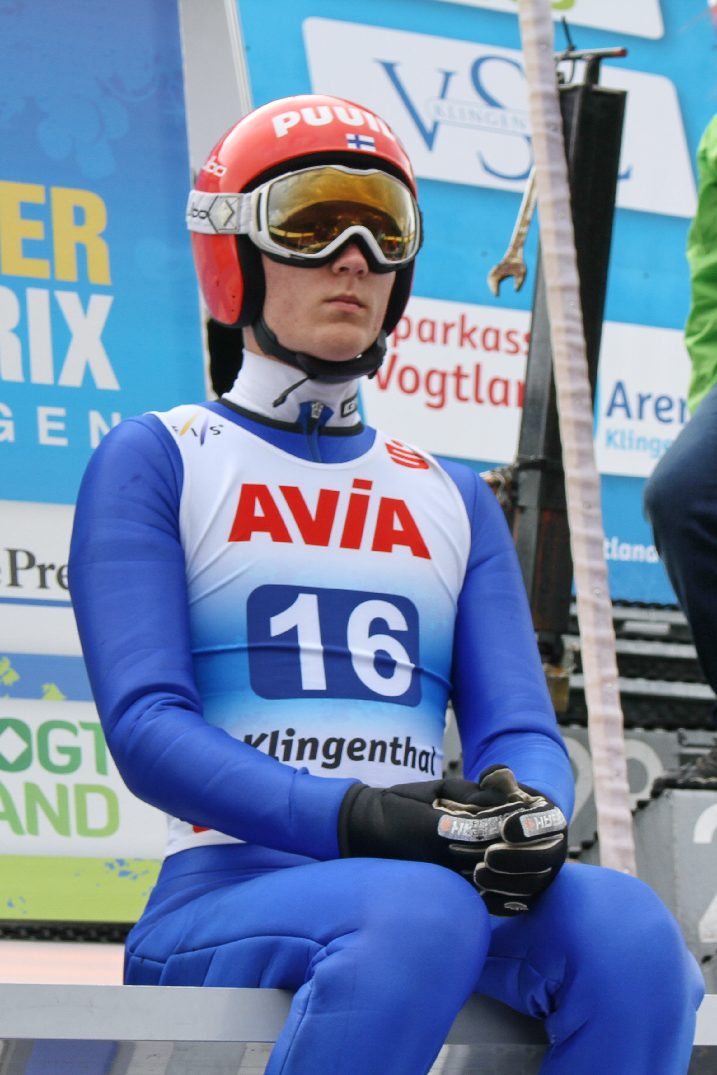 FIS Ski Jumping Summer Grand Prix Klingenthal 2017 on 2017-10-03 Andreas Alamommo